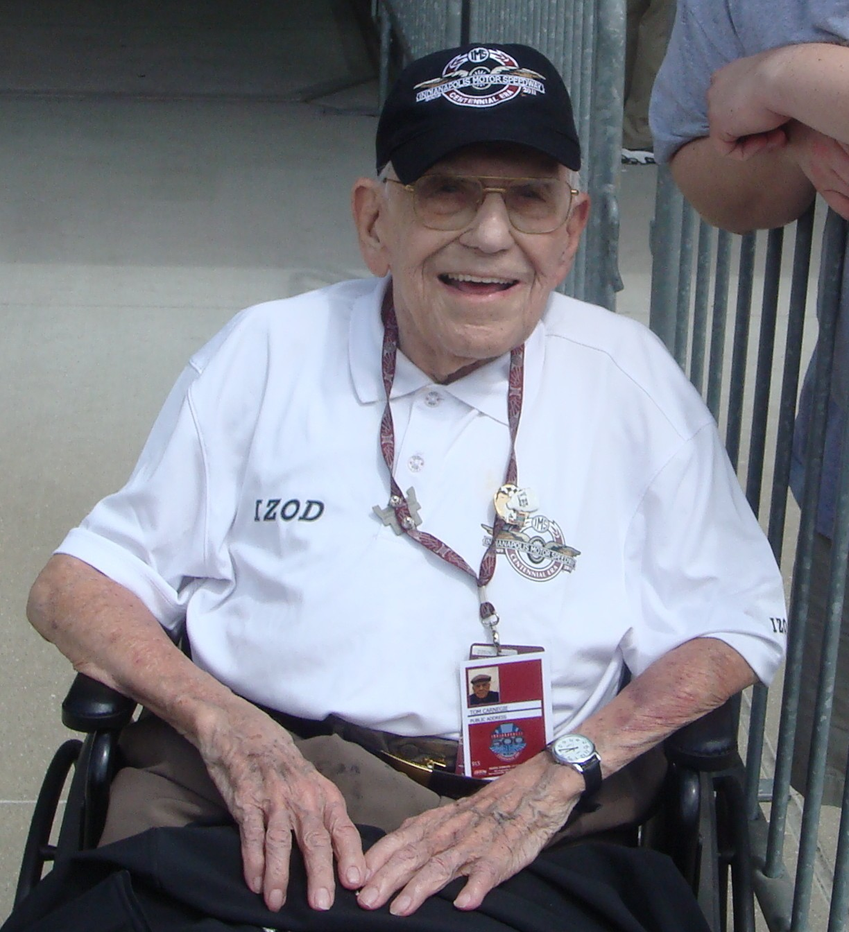 Long-time Indianapolis Motor Speedway track announcer Tom Carnegie at Pole Day qualifications for the 2010 Indianapolis 500, May 22 2010.